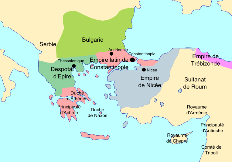 Byzantine Empire after the 4th Crusade, in year 1230. The Latin Empire, Empire of Nicaea, Trebizond and Epirus. Borders are very uncertain.